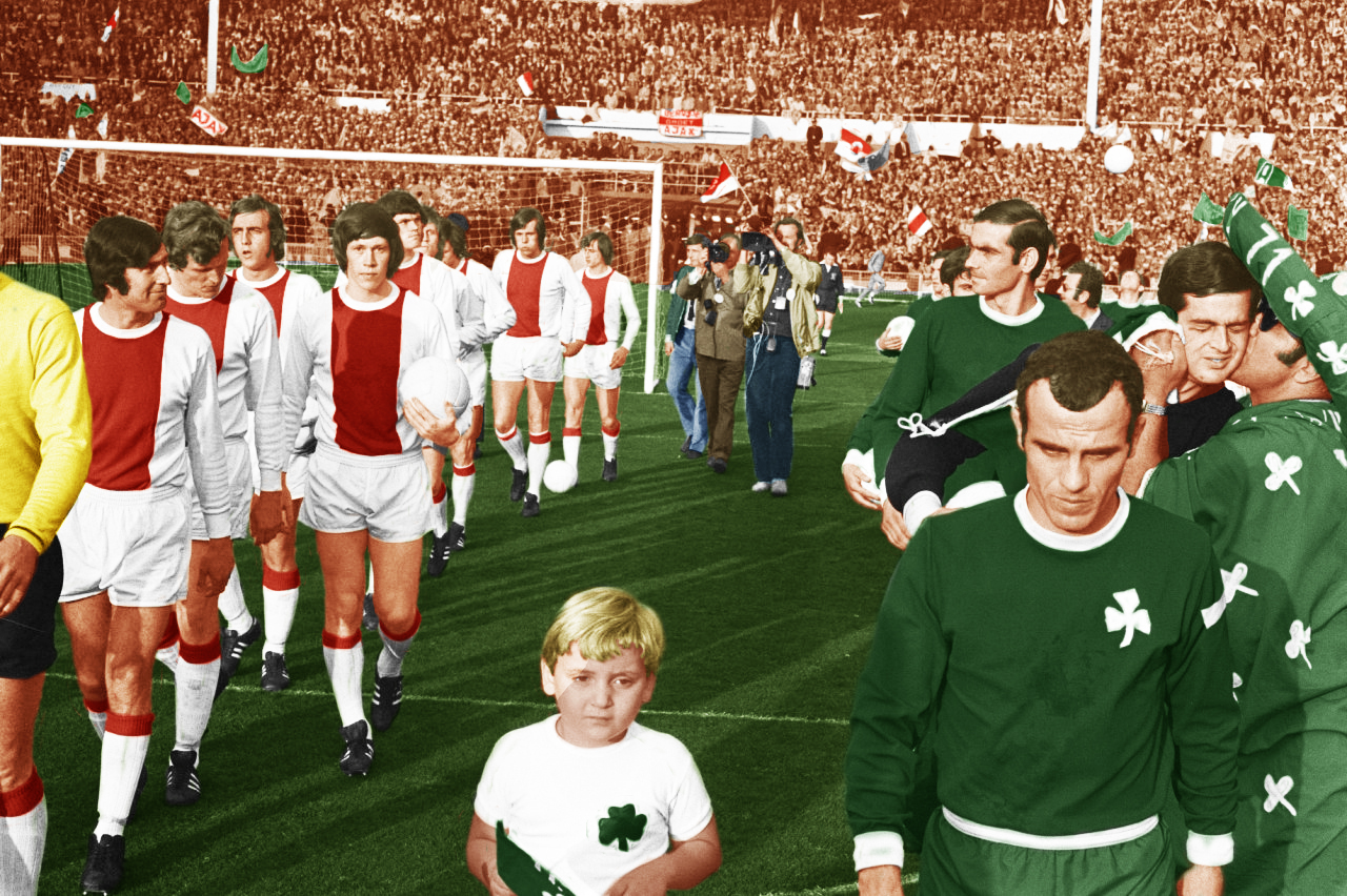 Ajax and Panathinaikos entering to the pitch to play the European Cup Final.